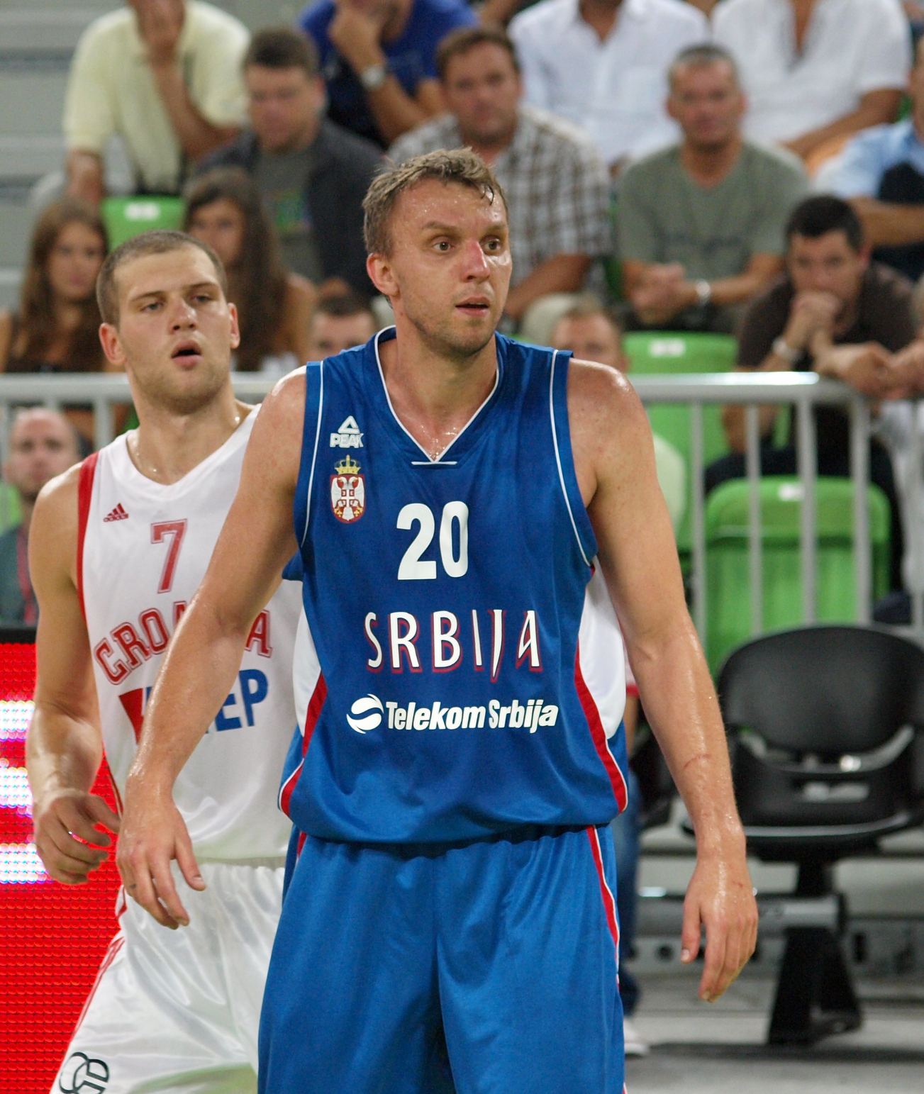 Duško Savanović, Adecco finals 2011.